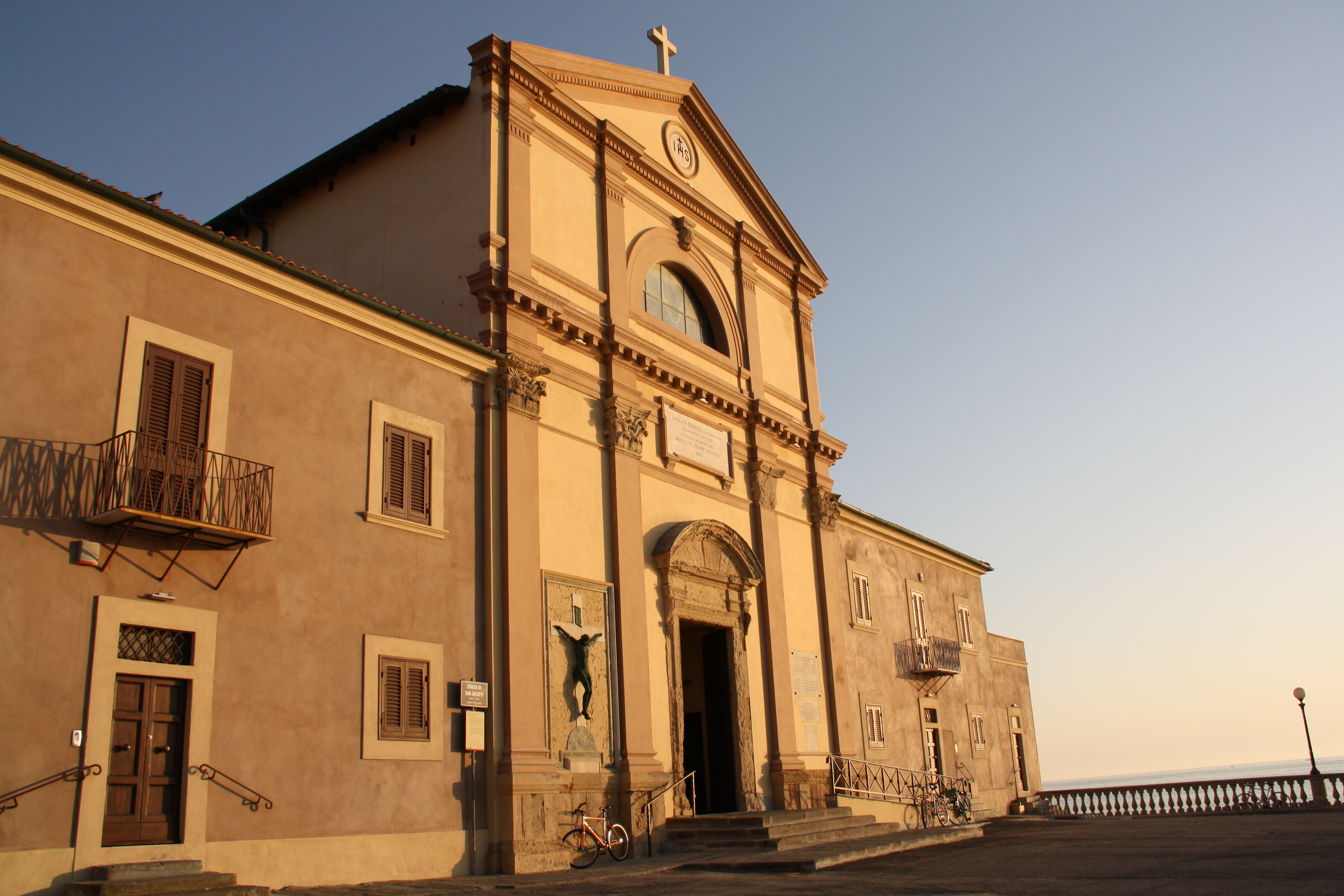 Italy, Livorno, Chiesa di San Jacopo in Acquaviva. Once the pilgrims departed from the near small bay for Santiago de Compostela.